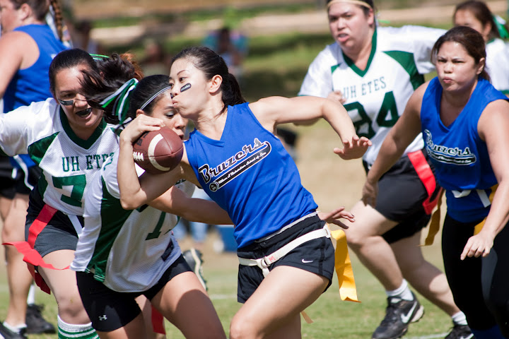 William S. Richardson School of Law, Ete Bowl I